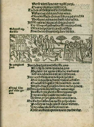 Illustrated page from the second edition of Judita written and illustrated by Croatian rennaisance writer Marko Marulić, published in Zadar, May 1522.